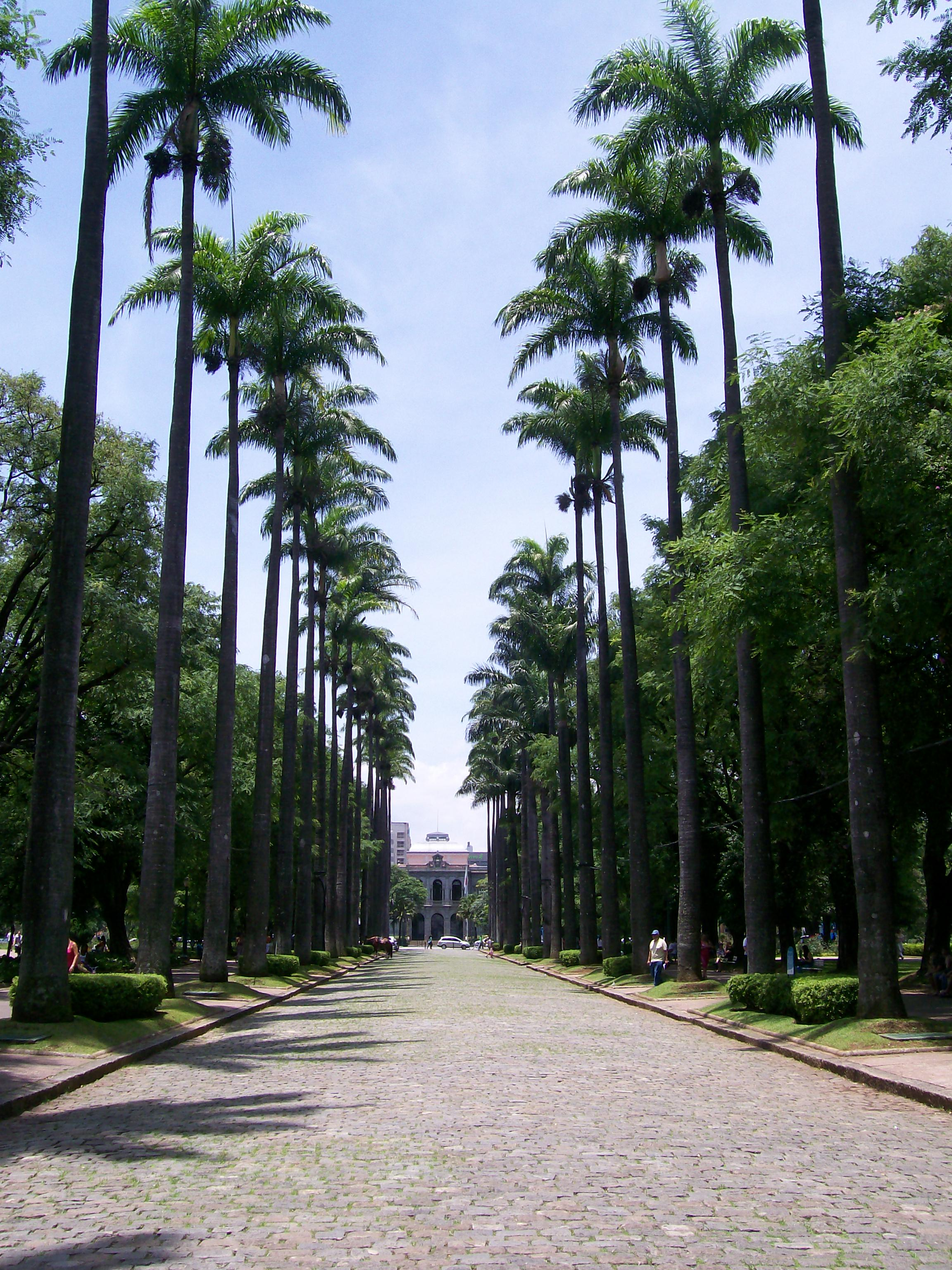 Alley in the middle of Praça da Liberdade, Belo Horizonte, Brazil.